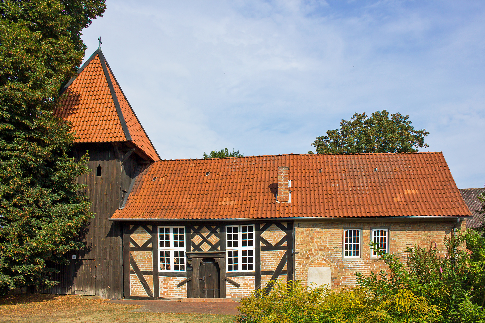 Chapel of the village Jeetzel (district Lüchow-Dannenberg, north-eastern Lower Saxony, Germany).